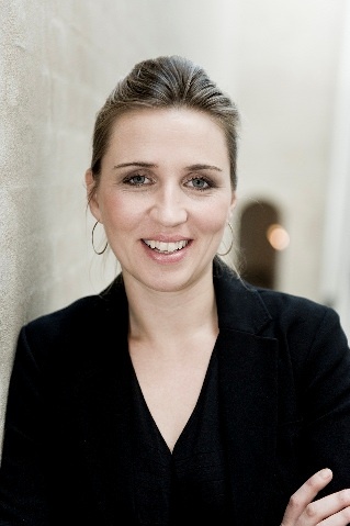 Mette Frederiksen - 2009